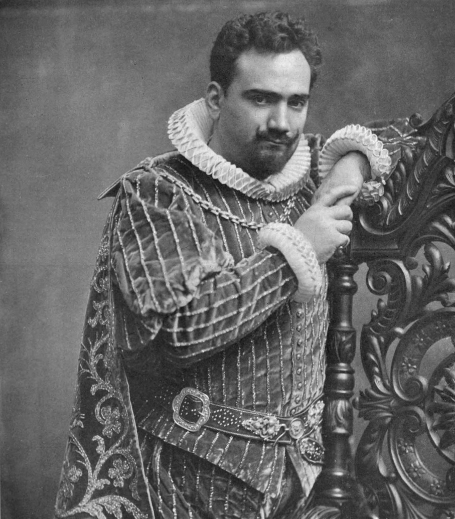 Caption: SIGNOR CARUSO The great Italian tenor who has succeeded Jean de Reszké in the affections of American lovers of Grand Opera. Signor Caruso, who is now singing his second season at the Metropolitan Opera House, New York, is seen here as the Duke in Rigoletto